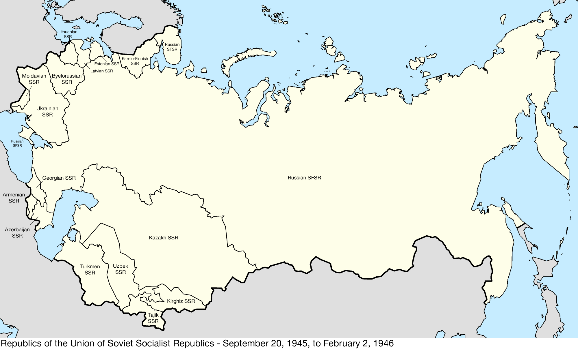 Map of the Soviet Union from September 20, 1945, to February 2, 1946.